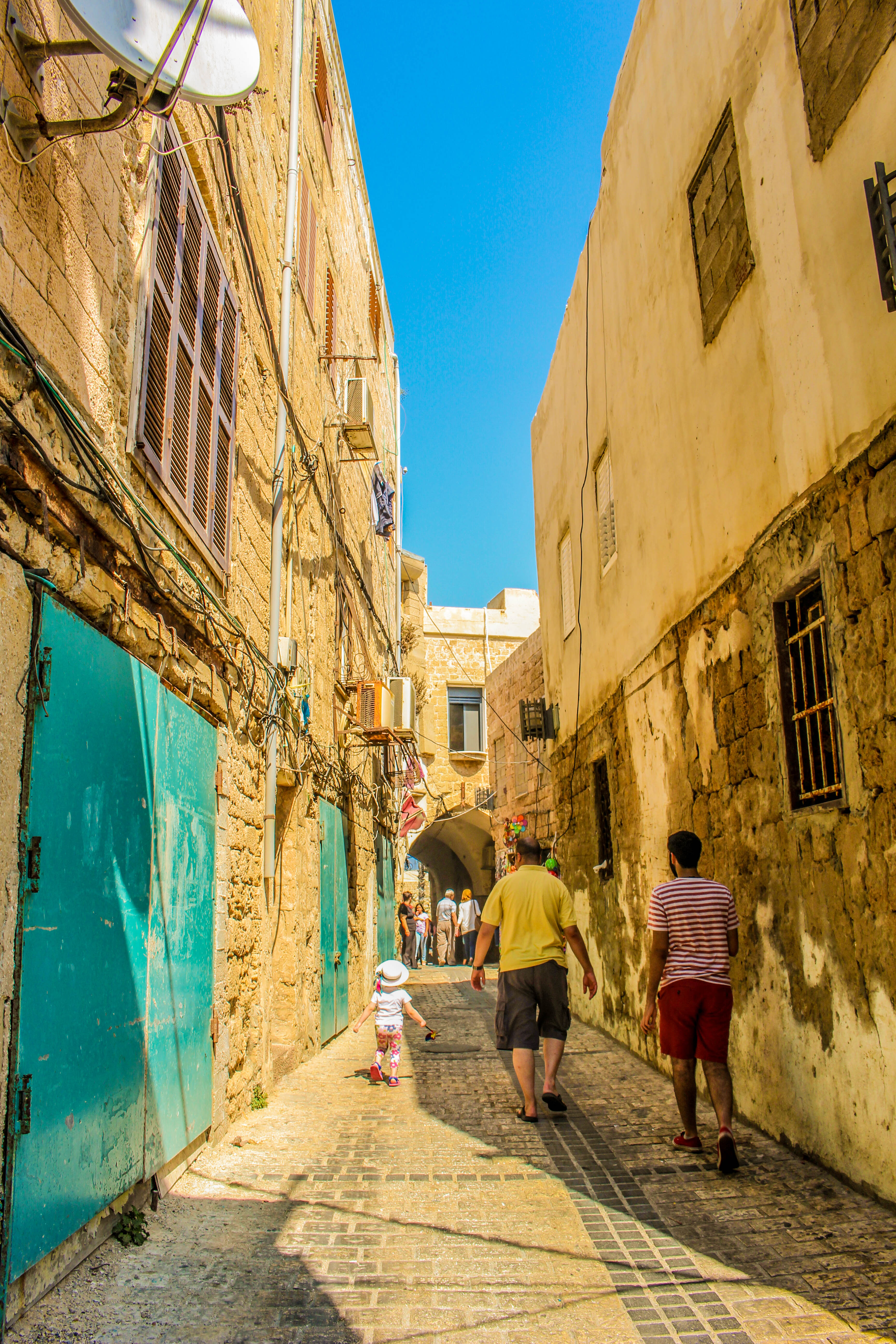 An alley in Akko city.